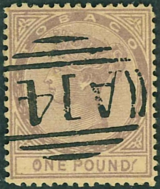 Tobago 1879, 1 pound forgery